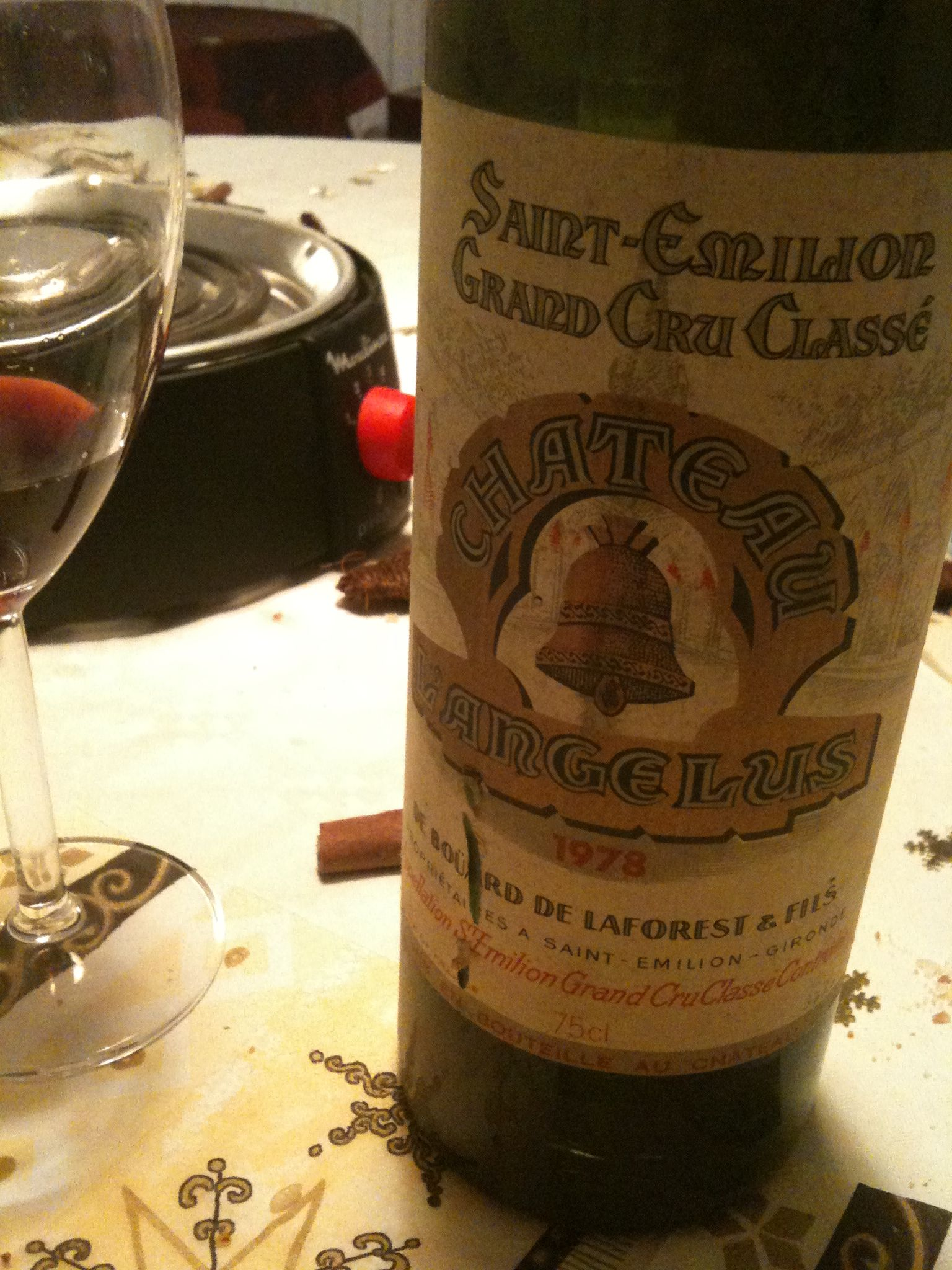 St Emilion Grand Cru Classe from the French wine region of Bordeaux